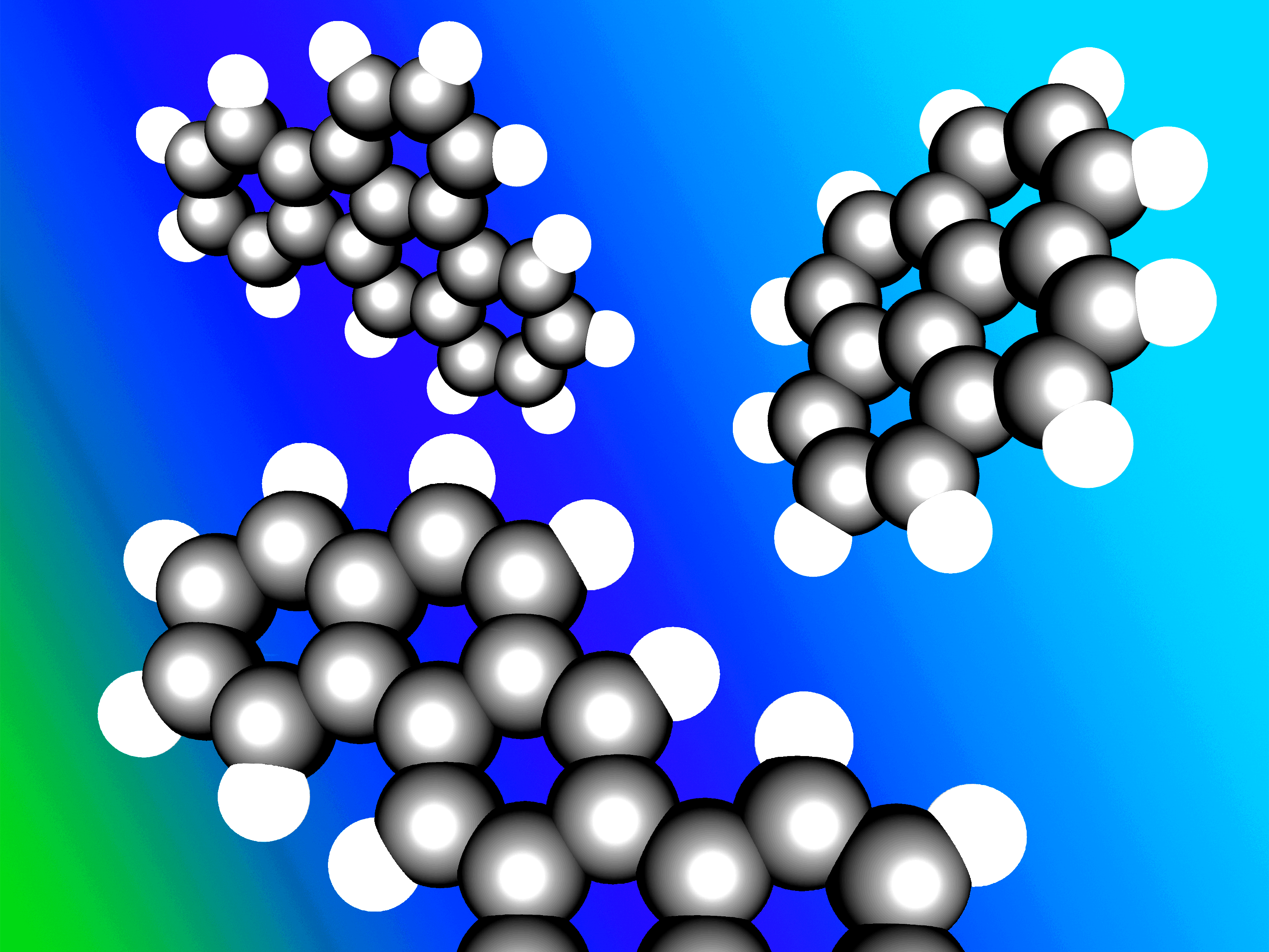 An image showing three examples of polycyclic aromatic hydrocarbons. Clockwise from top left, the molecules are: benz(e)acephenanthrylene, pyrene and dibenz(a,h)anthracene